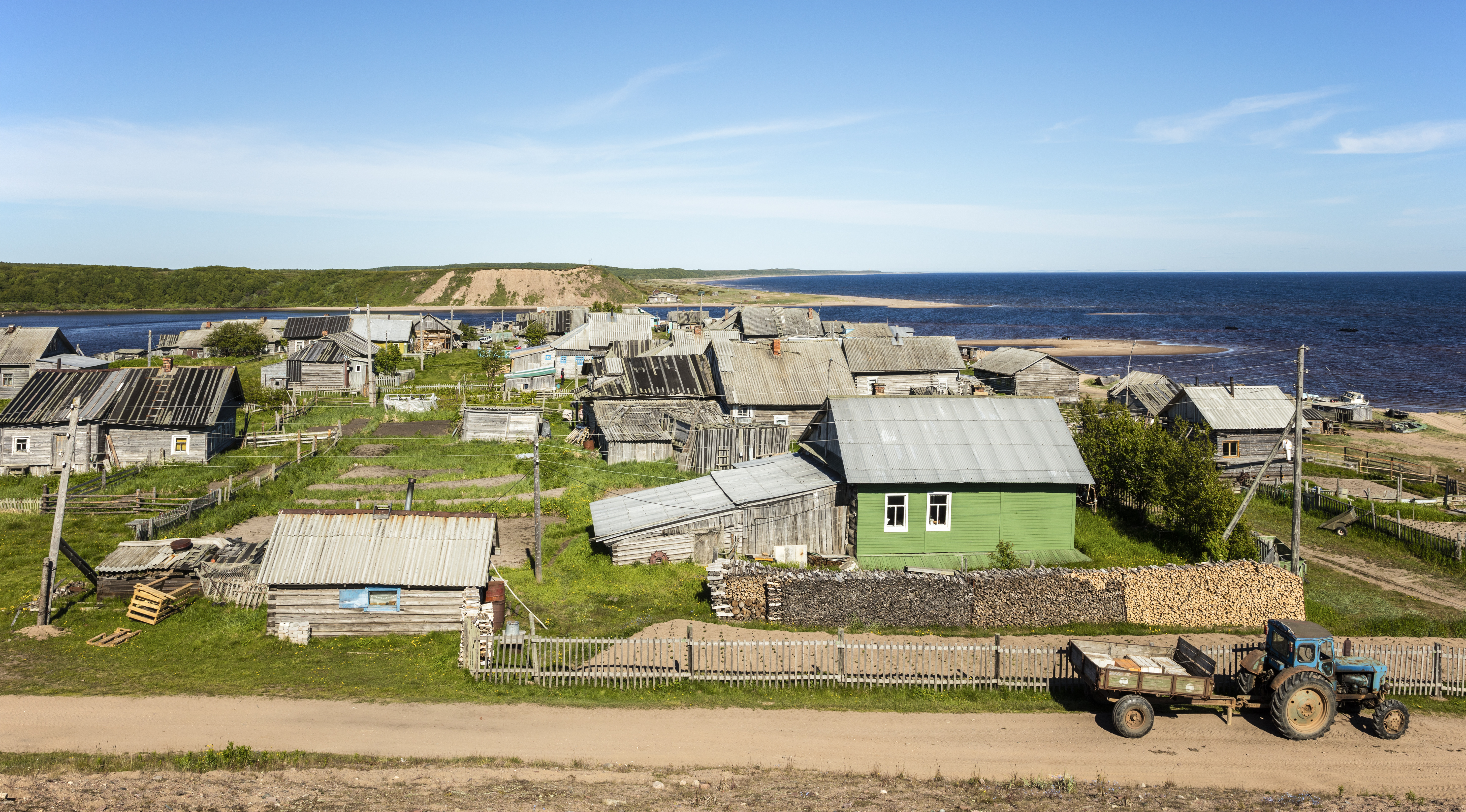 Images from the Villiage of Chapoma, on the Kola Peninsula, Murmansk Oblast, Russia.